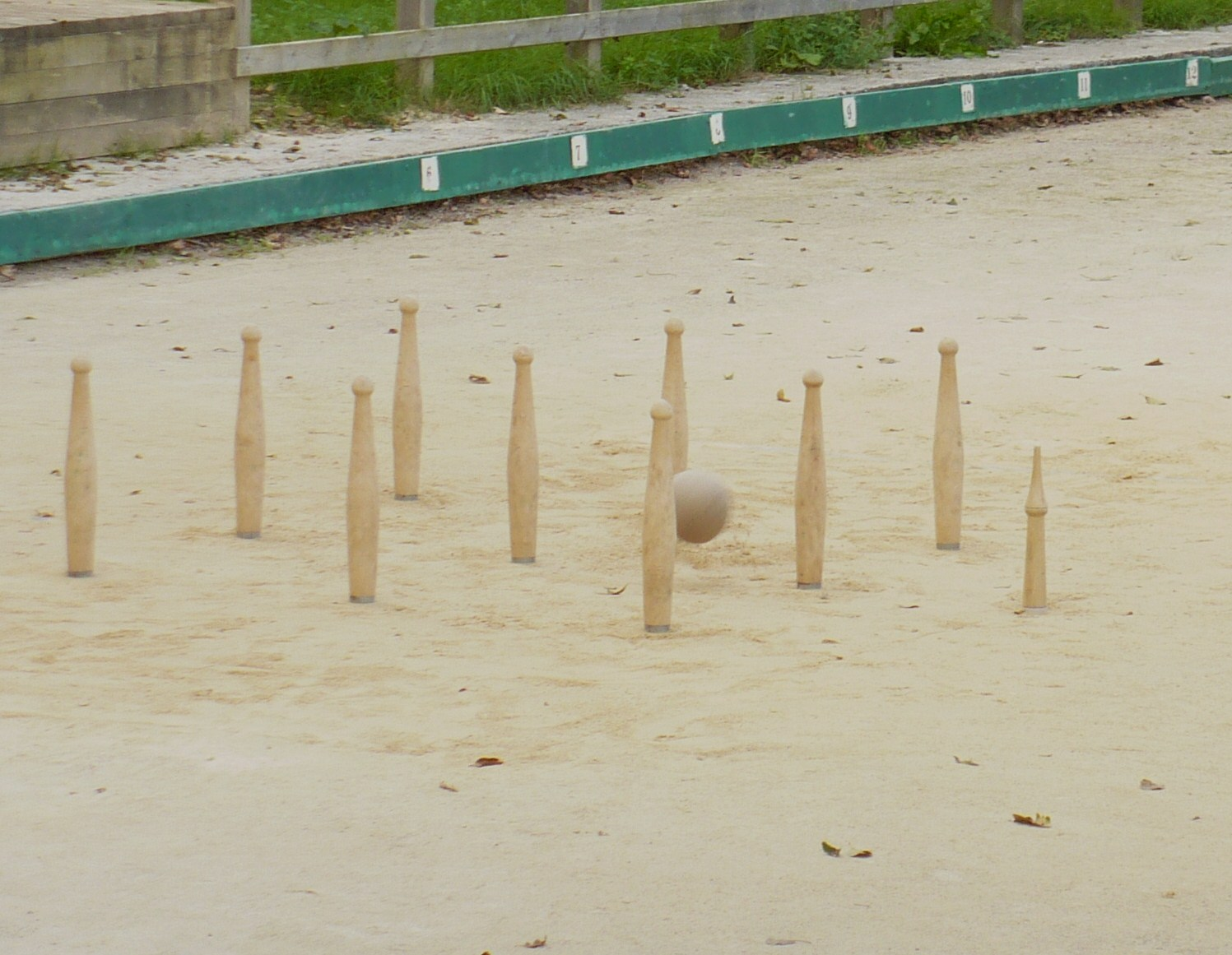 Pins and bowl in bolo palma (Cantabrian bowls)